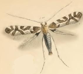 Stainton’s Natural History of the Tineina (1855–1873): Phyllonorycter comparella